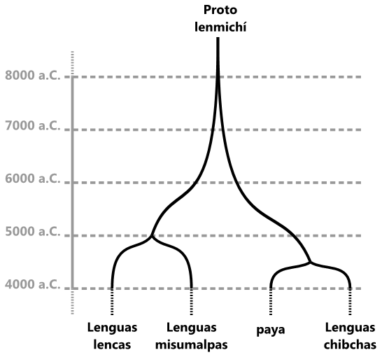 Lenmichi family of languages. Chibchan languages. Misumalpan languages. Lenca languages.